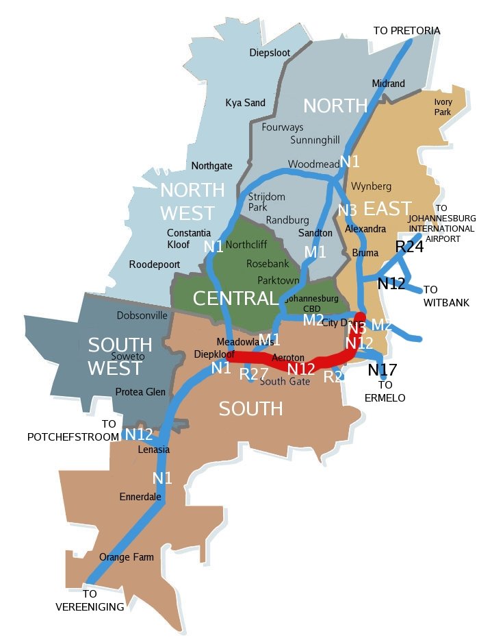 Map of Johannesburg with road and region markings. N12 Southern Bypass marked in red.